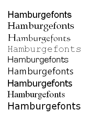 The word „Hamburgefonts“ in various fonts: Arial, Book Antiqua, Calligraph421 BT, Courier New, Eurostile, Segoe UI, Tahoma, Times New Roman, Verdana. Made with Word 2007.